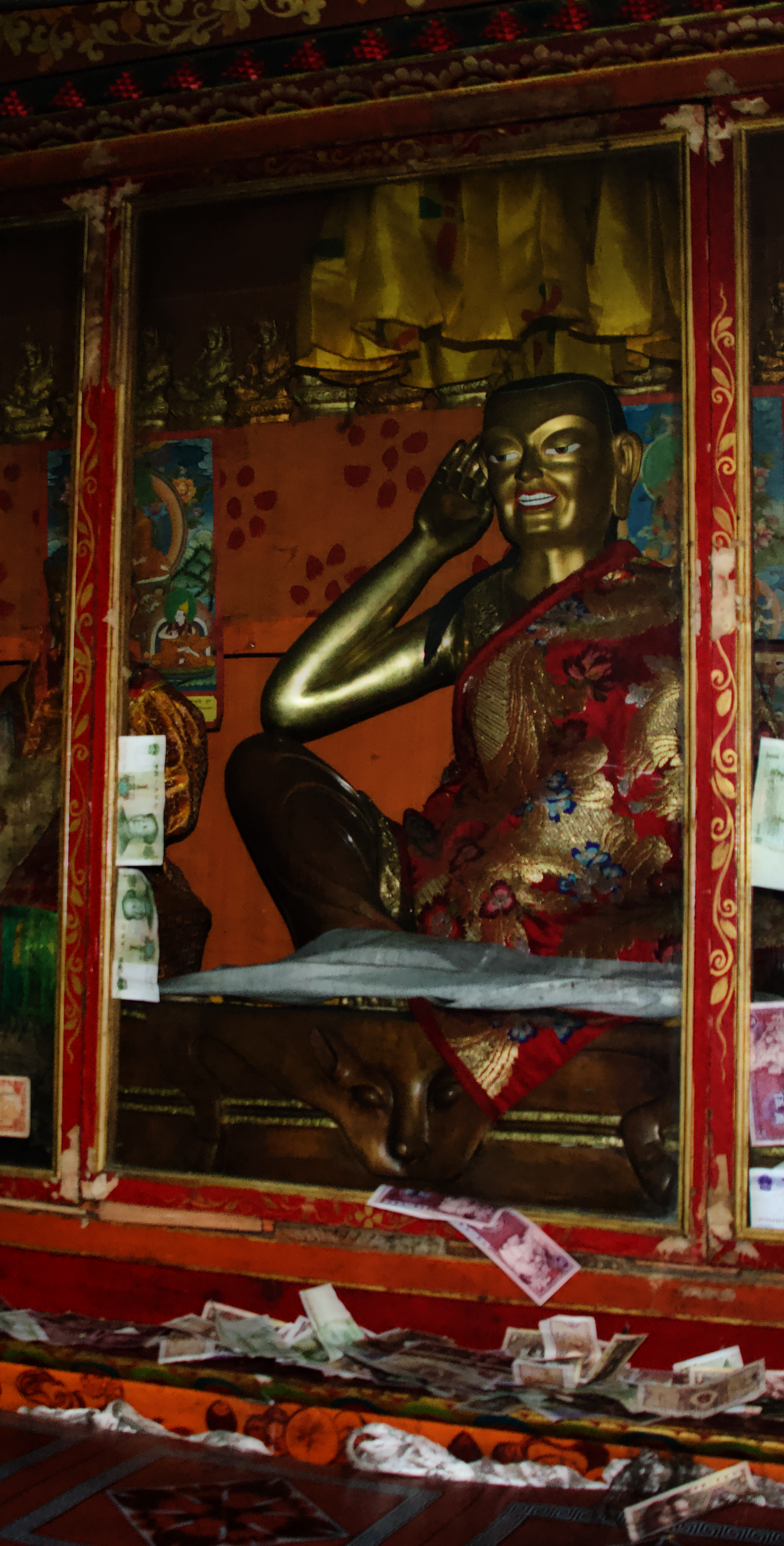 Statue of Milarepa at Ralung Gompa, Drukpa lineage, Gyantse County, south west of Yamdrok Lake, north of Bhutan, where found shelter the lineage, creating the "Nation of the Dragon (Druk)"